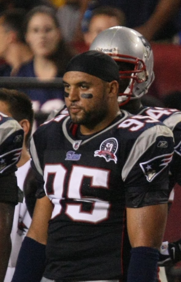 New England Patriots at Washington Redskins 08/28/09